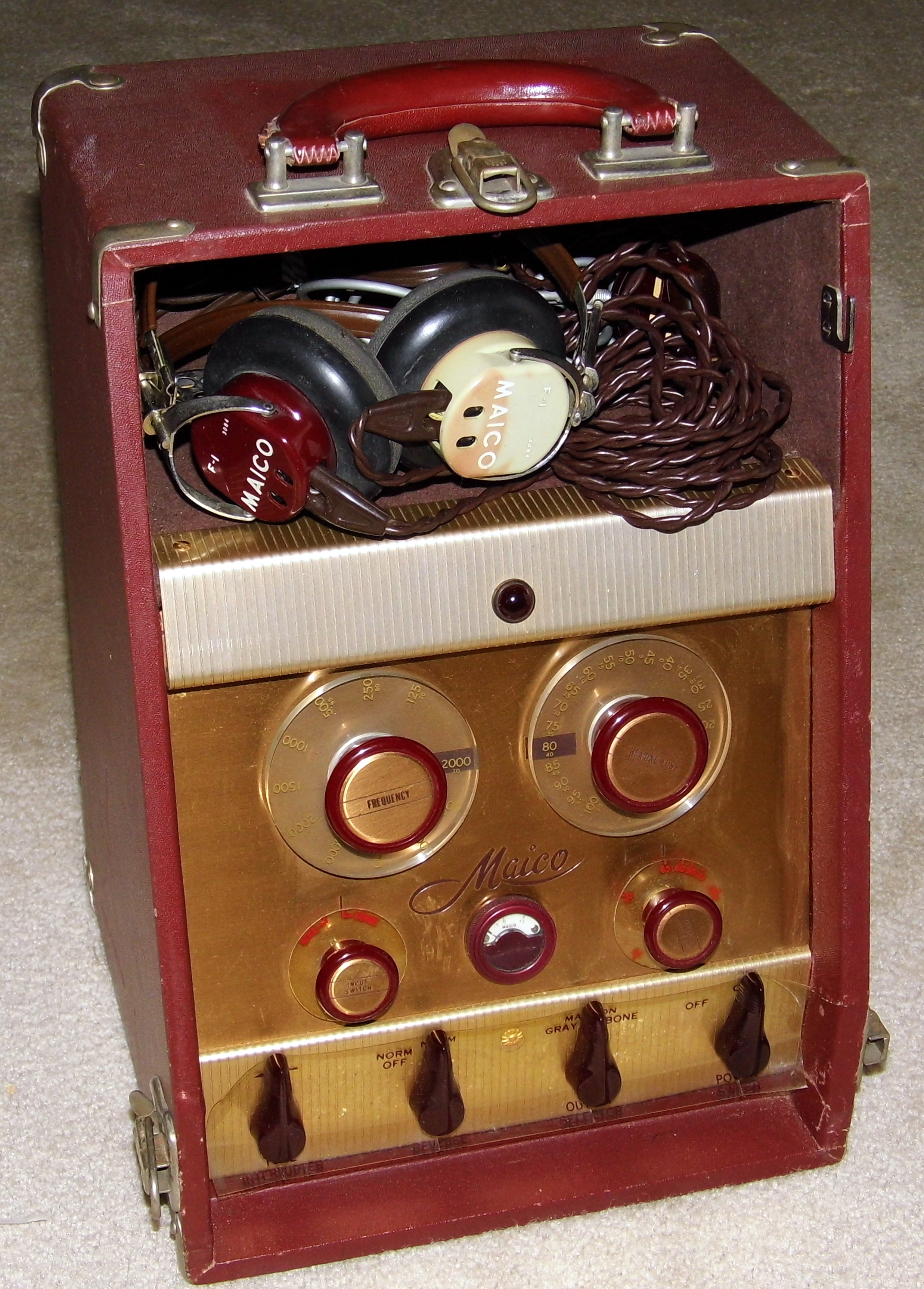 Vintage Maico Model F-1 Portable Audiometer Hearing Tester, Vacuum Tube Unit, Circa 1960s